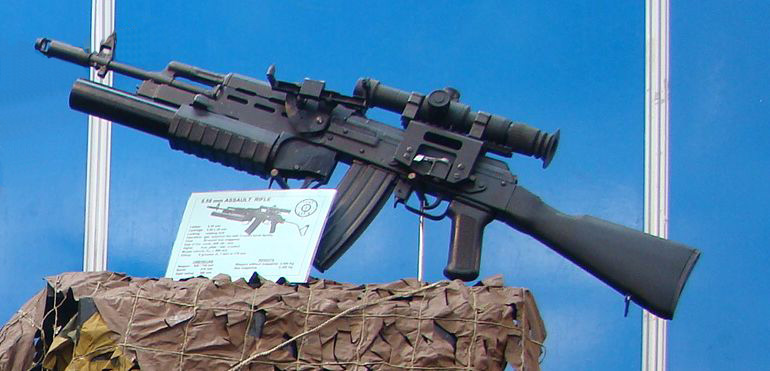 PA Md. 2000 (5.56 mm) assault rifle on display at Black Sea Defense and Aerospace 2010.